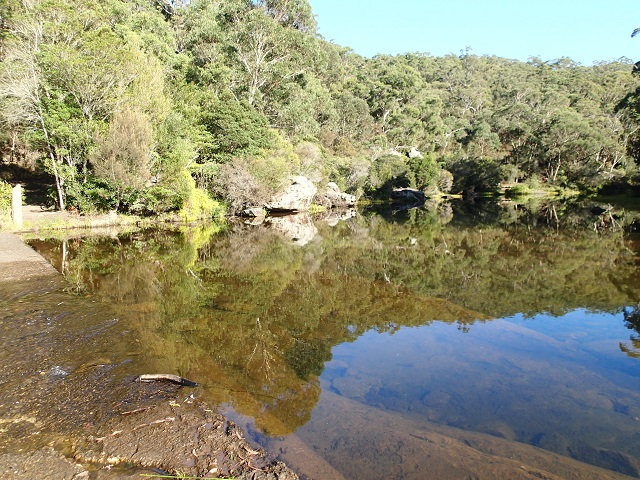 Lucas Watermills Archaeological Sites: Woronora Mill